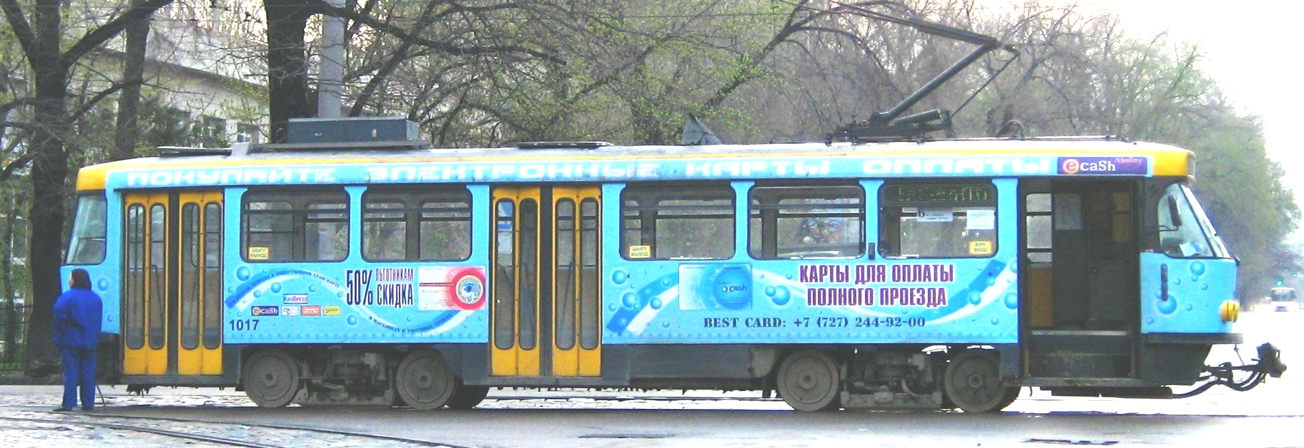 Almaty tramway – early morning, ex German Dresdner Verkehrsbetriebe tram